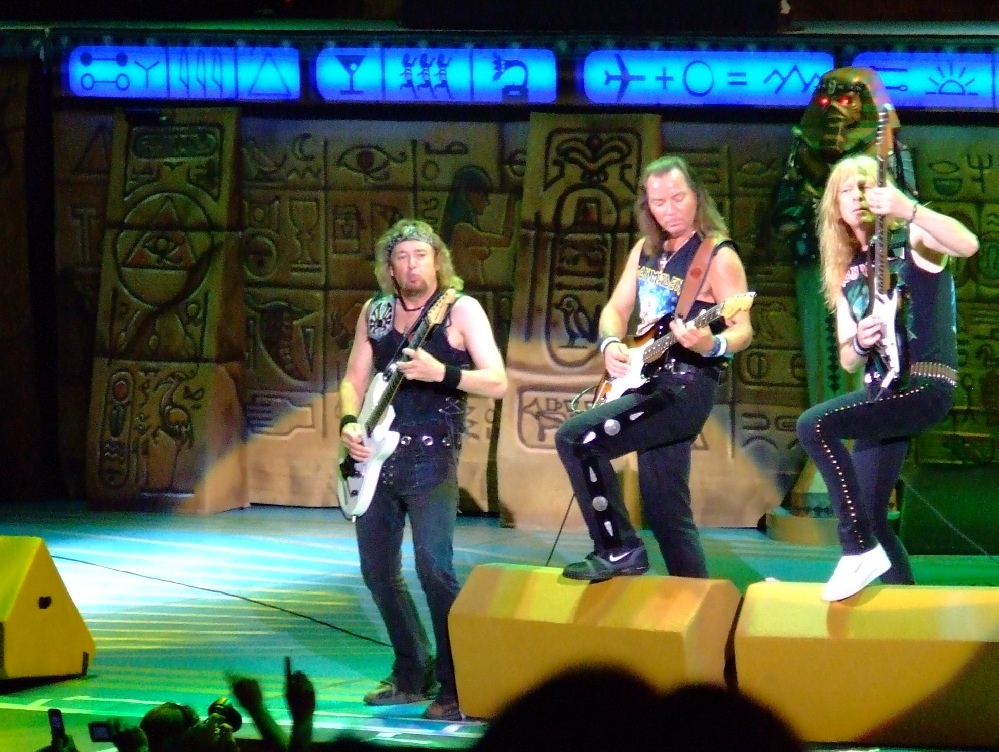 Iron Maiden @ Verizon Wireless Irvine MAy 31 2008